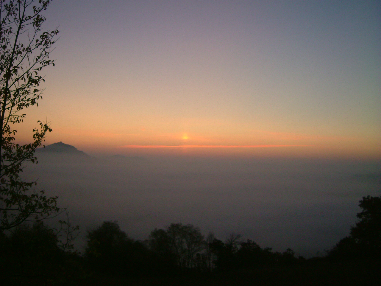 Sun pillar as seen when the sun is still behind the horizon. Even more rare is the lake-reflection effect which is shown on this occasion (not real also because there is no water in between). The photo was taken at 44°18'54.33"N / 11°19'50.32"E on Oct 22 2008 between 7:17 and 7:24 AM (camera time settings were not correct). The expected time for sunrise at this location on that day was 7:34 AM, so the phenomenon anticipated at least 10 minutes the real sunrise. The mountain on the left is Monte delle Formiche. NOT a parhelion!